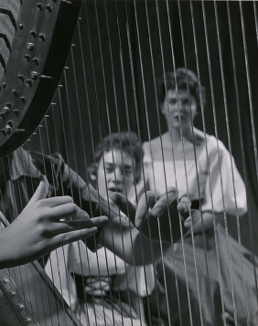 A closeup photograph of a harpist performing.